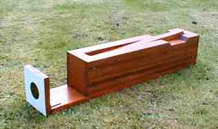 Trap used in bat and trap, Sevenoaks Bat & Trap League